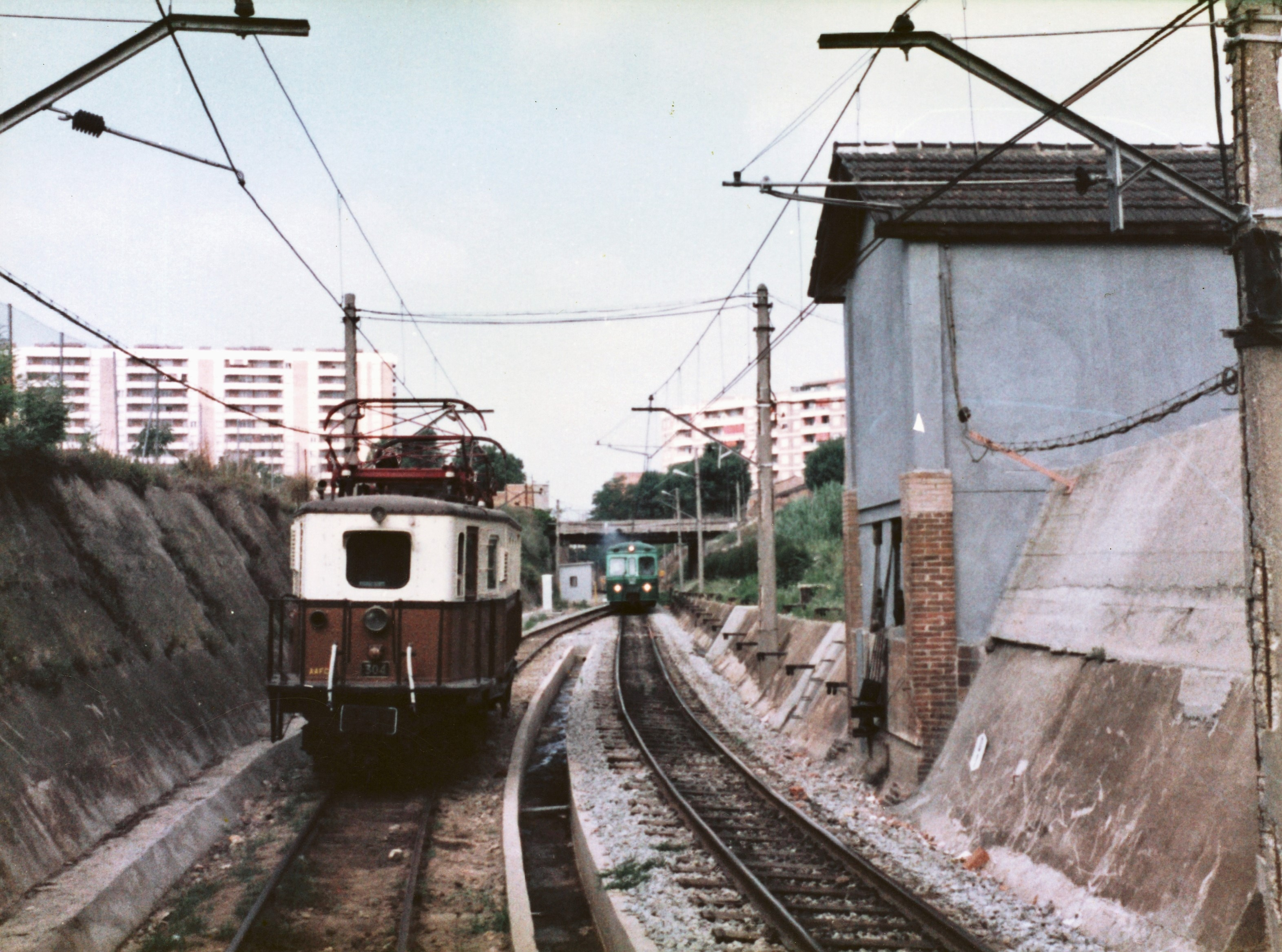 Special AAFCB train from Barcelona Plaça Espanya to Barcelona-El Port. The train left Plaça Espanya towed by the heritage 304 electric locomotive (Braine-le-Comte / Ganz 1926, owned by the AAFCB). At the Riera Blanca junction (in the photo, better known as "Cabin Riera Blanca"), the train backed up to enter the old branch of the port through the Polvorín neighborhood and the Montjuïc slopes. There, the 31 "Berga" steam locomotive (MTM 1902, also owned by the AAFCB) took over the drive. In the photo we see the 304 electric locomotive, once uncoupled, waiting to continue the journey to Sant Boi when it verifies the crossing with the train from Igualada that passes over the points, with a consist of MAN series 3000 diesel railcars.